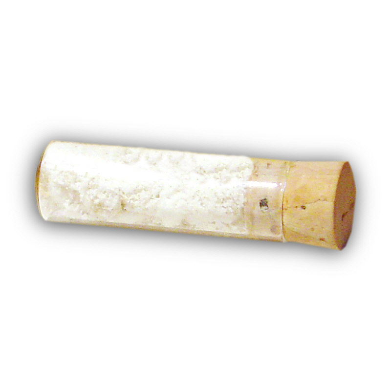 These mineral images are free to use how you wish.